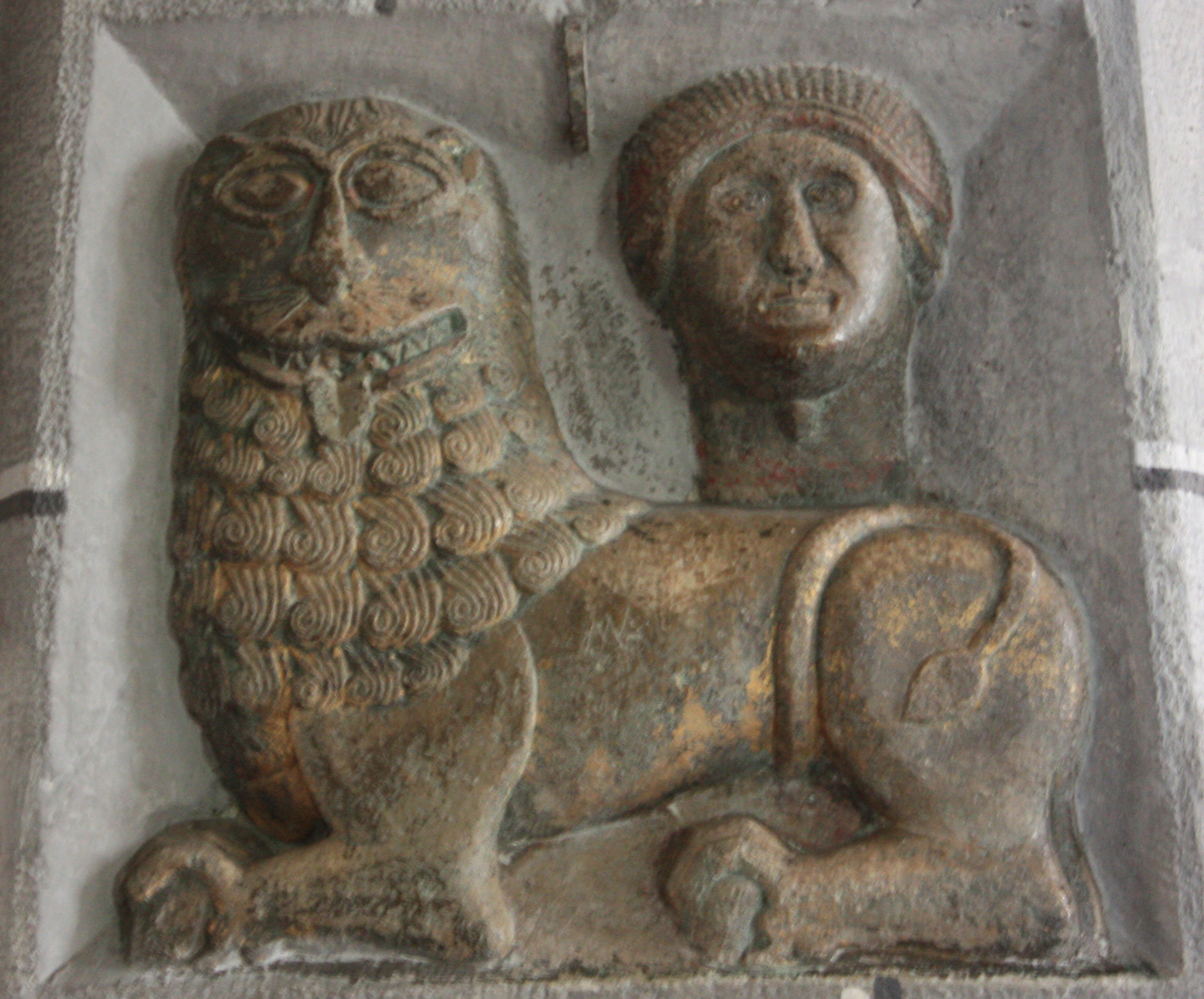 Saint Marcus-relief in the parish-church of Wolfsberg, Carinthia, (1150-1200)